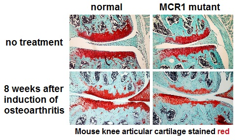 MCR1 deficiency and osteoarthritis